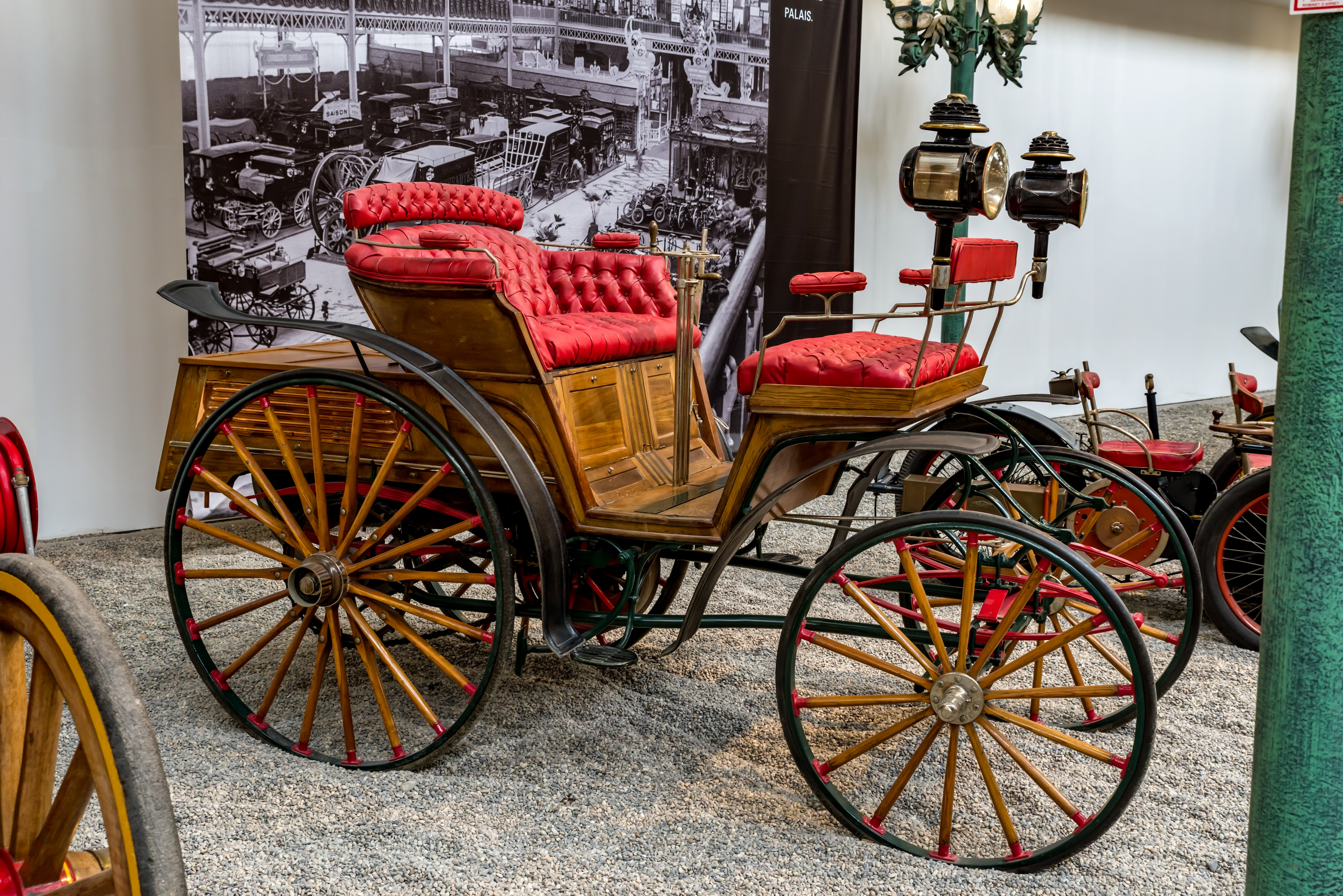 pictures from the Cité de l’Automobile – Musée National – Collection Schlump in Mulhouse, France ptictures from the 10. may 2018